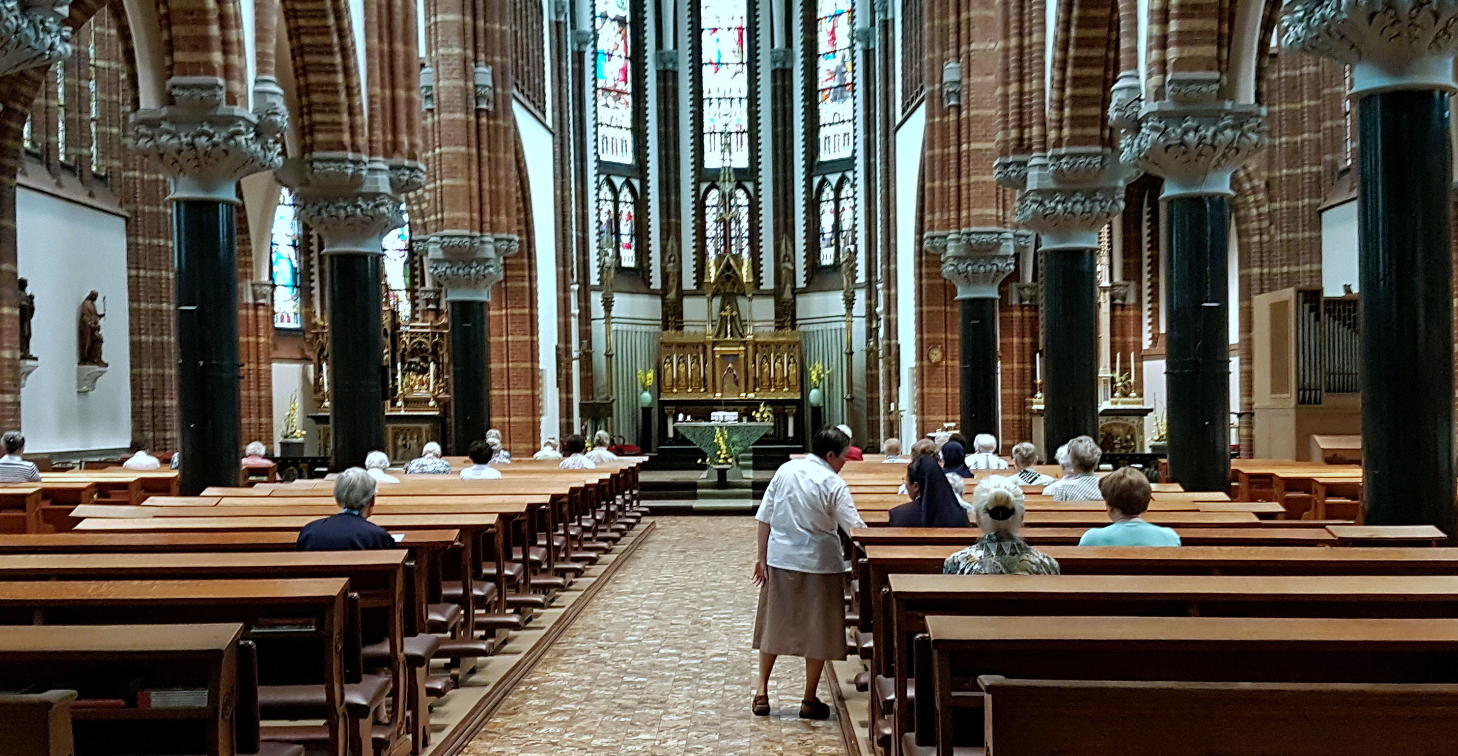 Interior view of the chapel of the Monastery of the Sisters of Mercy of St. Borromeo (Zusters onder de Bogen) in Maastricht, the Netherlands. The chapel is a well-preserved example of a large Gothic Revival monastery church in the Netherlands, designed by Johannes Kayser in 1899.